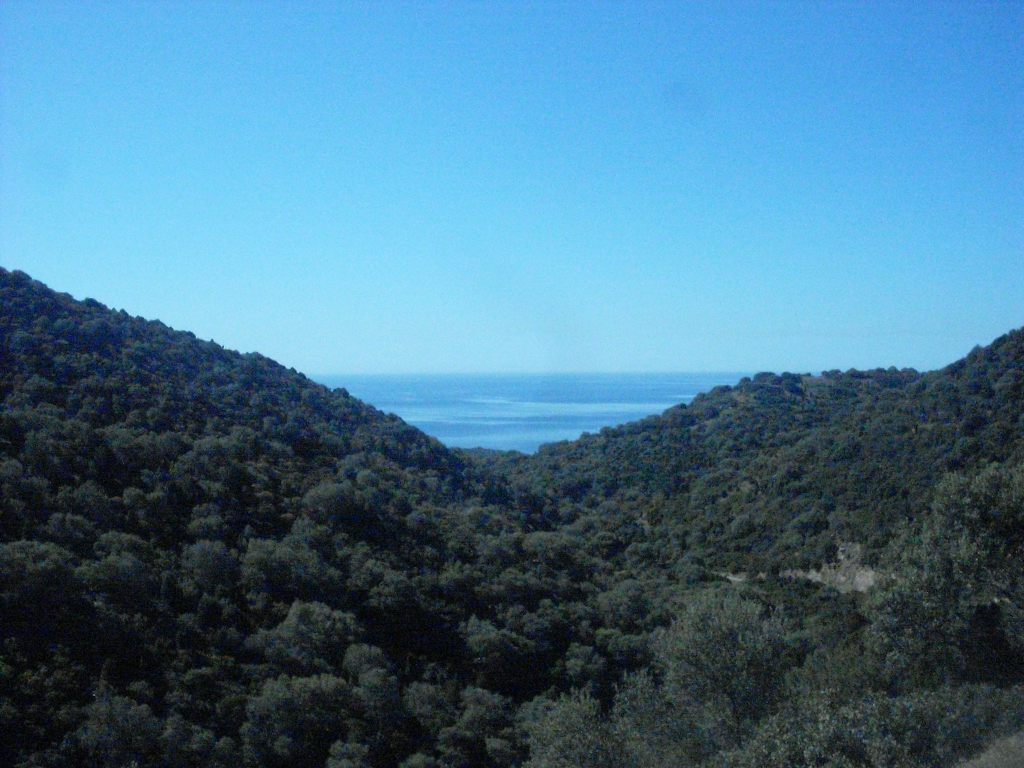 View of the Teulada sea from hills of Cambirussu, near Teulada (Sardinia, Italy)